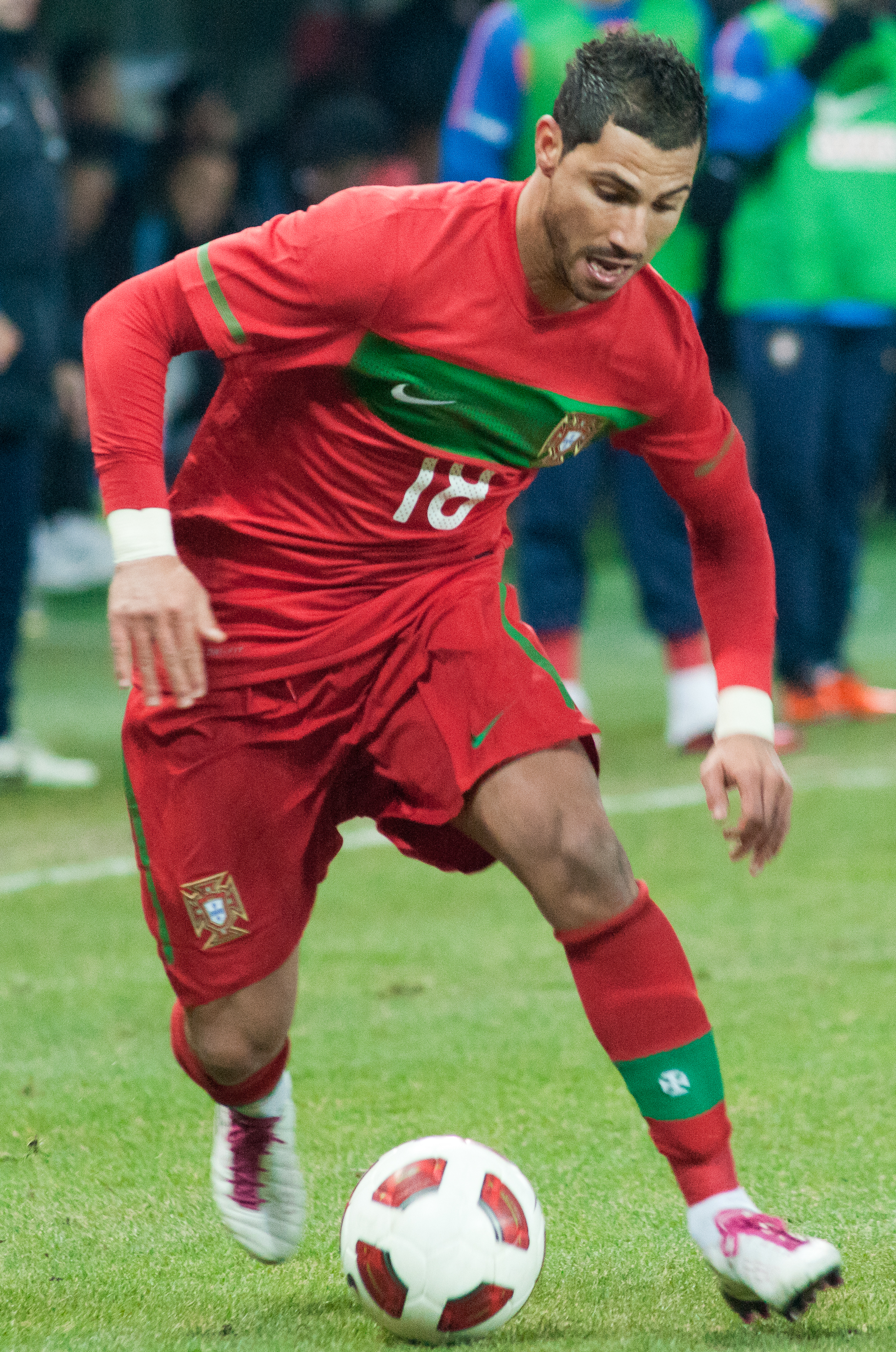 The making of this document was supported by Wikimedia CH. (Submit your project!) For all the files concerned, please see the category Supported by Wikimedia CH. Portugal vs. Argentina, 9th February 2011